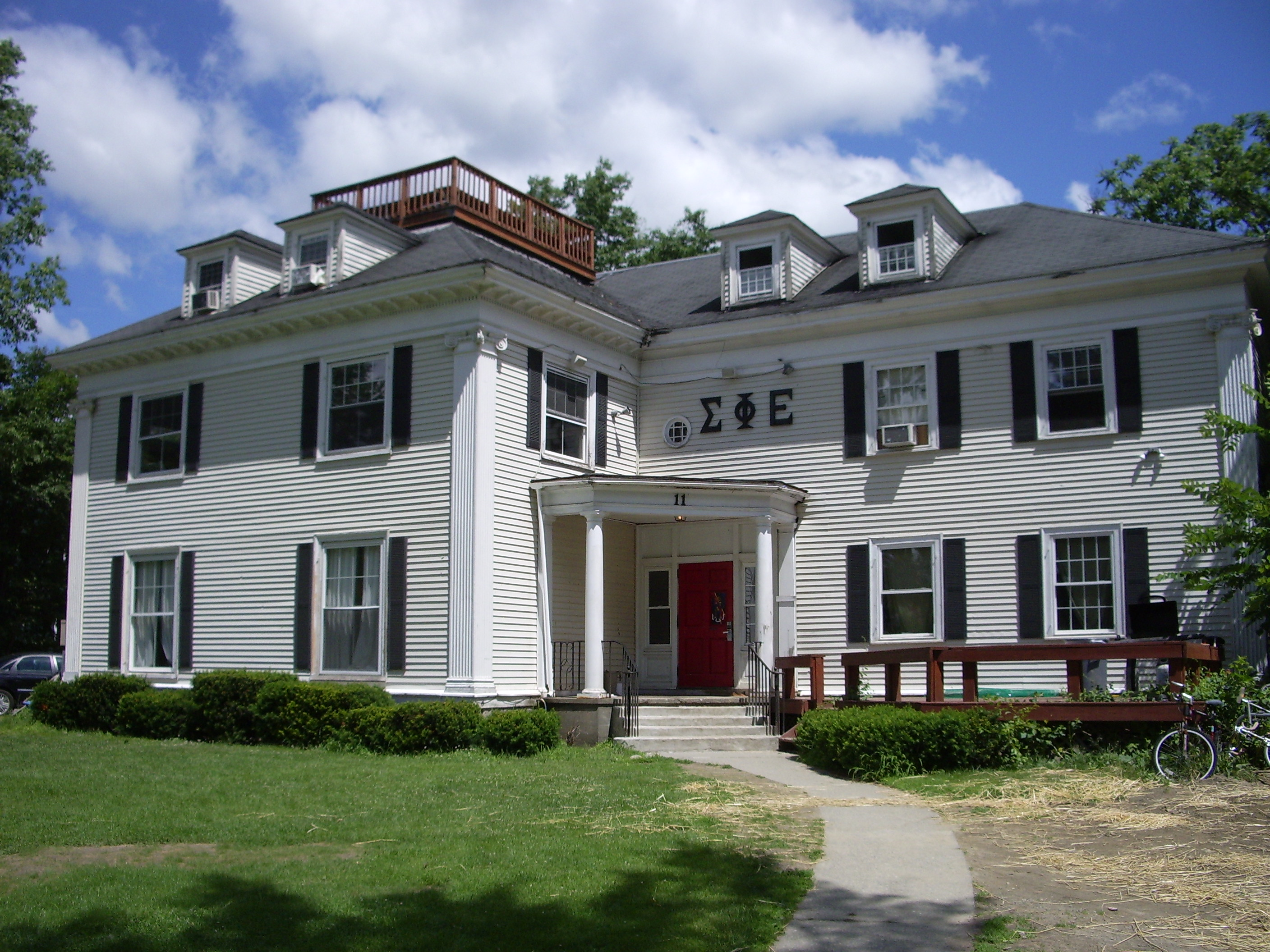 Photograph of Sigma Phi Epsilon at the campus of Dartmouth College in Hanover, New Hampshire.